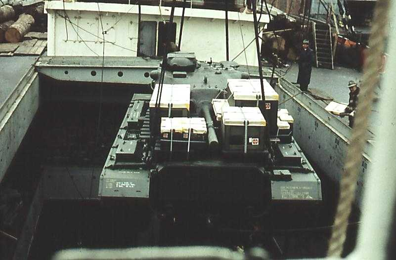 The M48 Patton tank is carefully lowered into hatch 3 of TS Nabob, New York - 1959